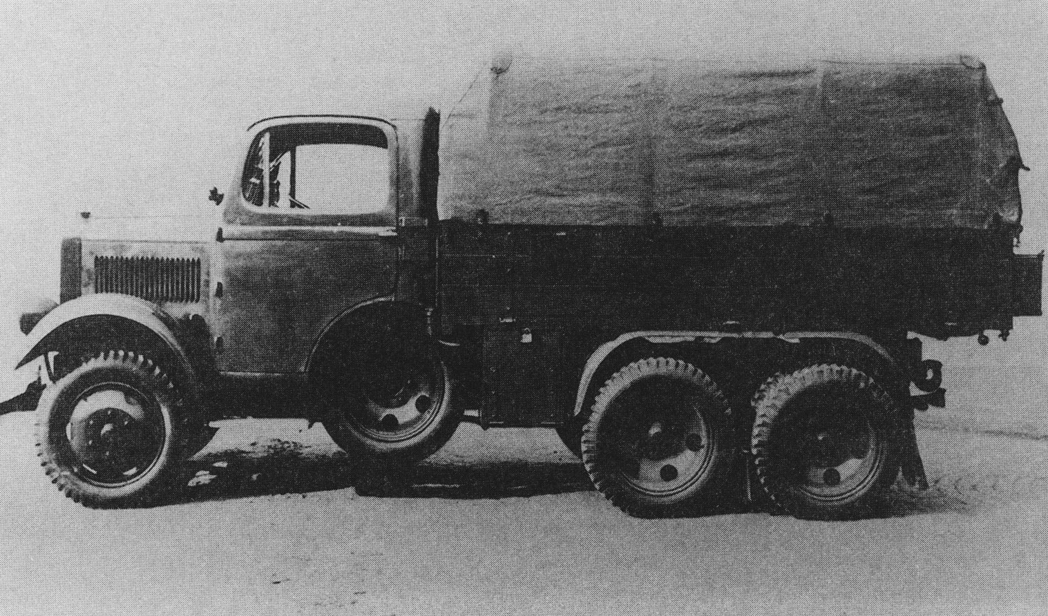 Skoda L.